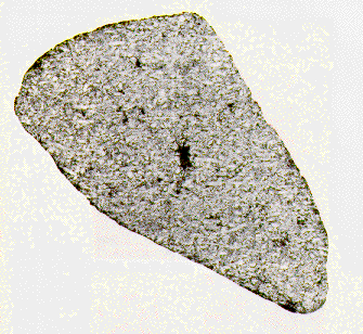 Shergotty meteorite